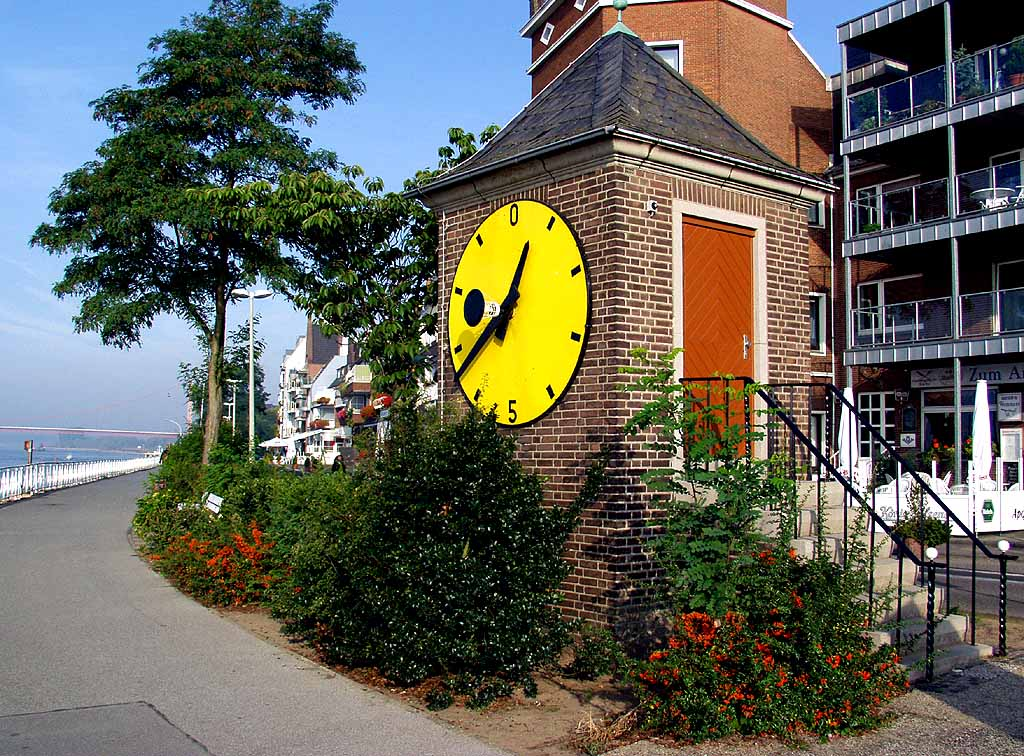 Emmerich - Pegeluhr at the river Rhine